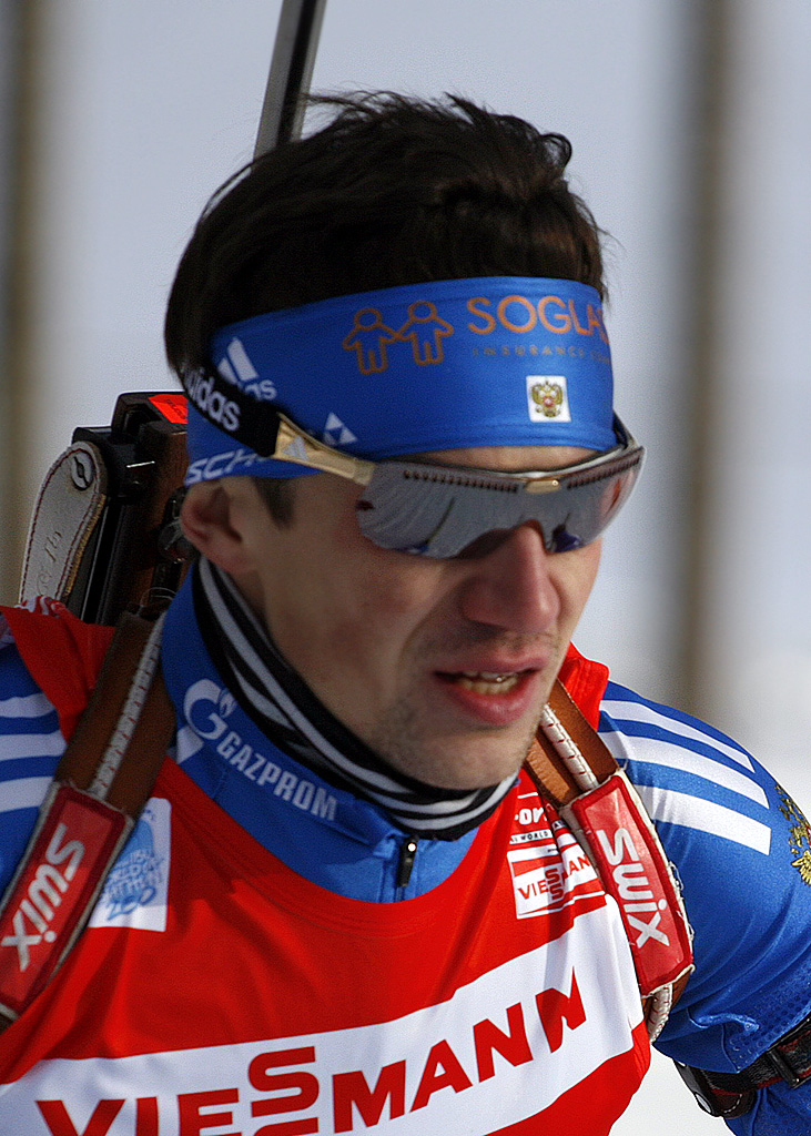 Maxim Tchoudov. Men 10 km sprint, 13 march 2010, Kontiolahti.